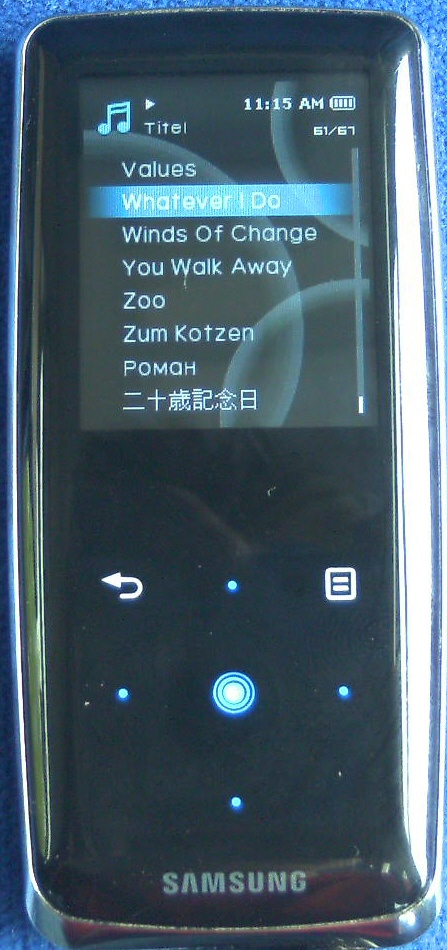 Samsung YP-S3 music player displaying following titles: ♬ Thumb "Values" ♬ Hazell Dean "Whatever I Do" ♬ Mark Spiro "Winds Of Change" ♬ Filter "You Walk Away" ♬ Base Alert "Zoo" ♬ Klootzak Vs. Kotszak "Zum Kotzen" ♬ Винтаж "Роман" ♬ Miyavi "二十歳記念日"